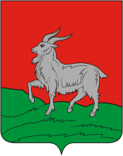 Michurinsk (Tambov oblast), coat of arms